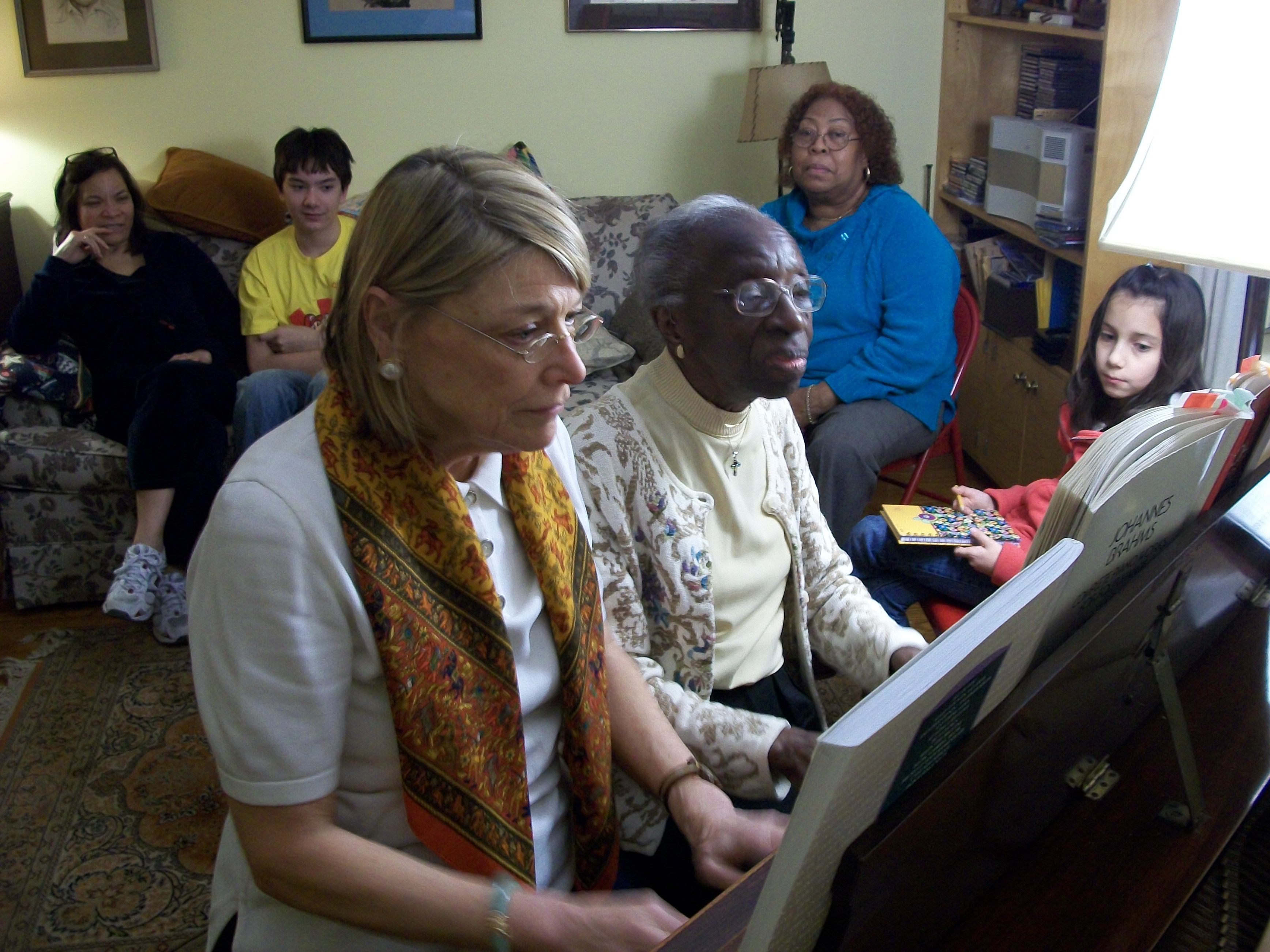 Capitola Dickerson (third from right) plays a duet with a parent at a recent piano recital featuring her students. Other students and parents listen to the piano. Ms. Dickerson has taught several generations of students in New Jersey.